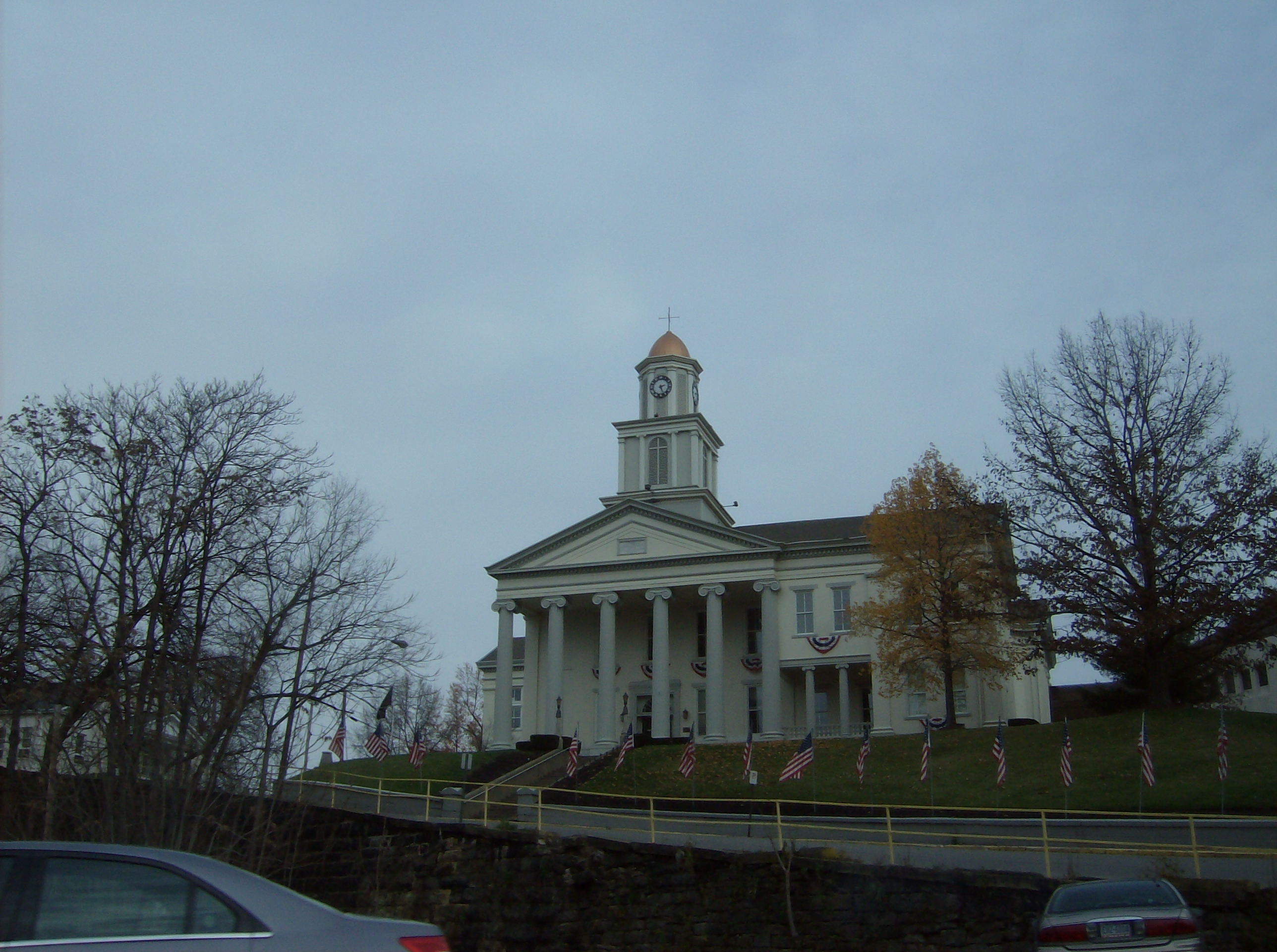 Front of the Lawrence County Courthouse, located at 430 Court Street in New Castle, Pennsylvania, United States. Built in 1850, it is listed on the National Register of Historic Places. Picture taken from westbound car on East Washington Street.